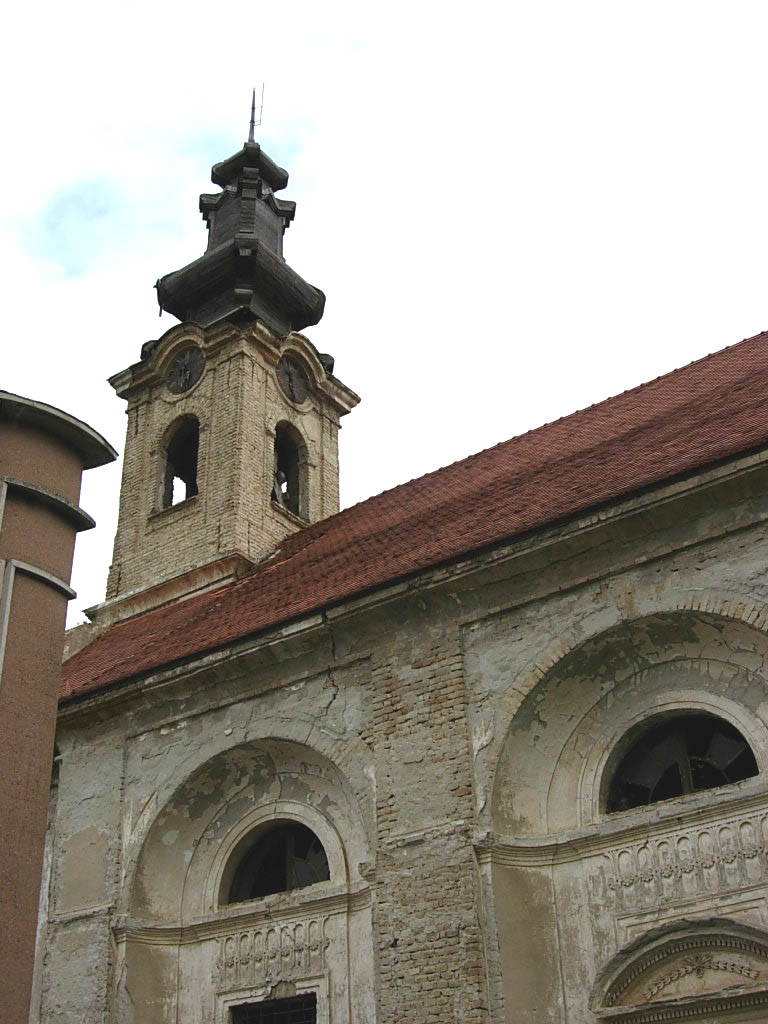 The Evangelical Church in Savino Selo.